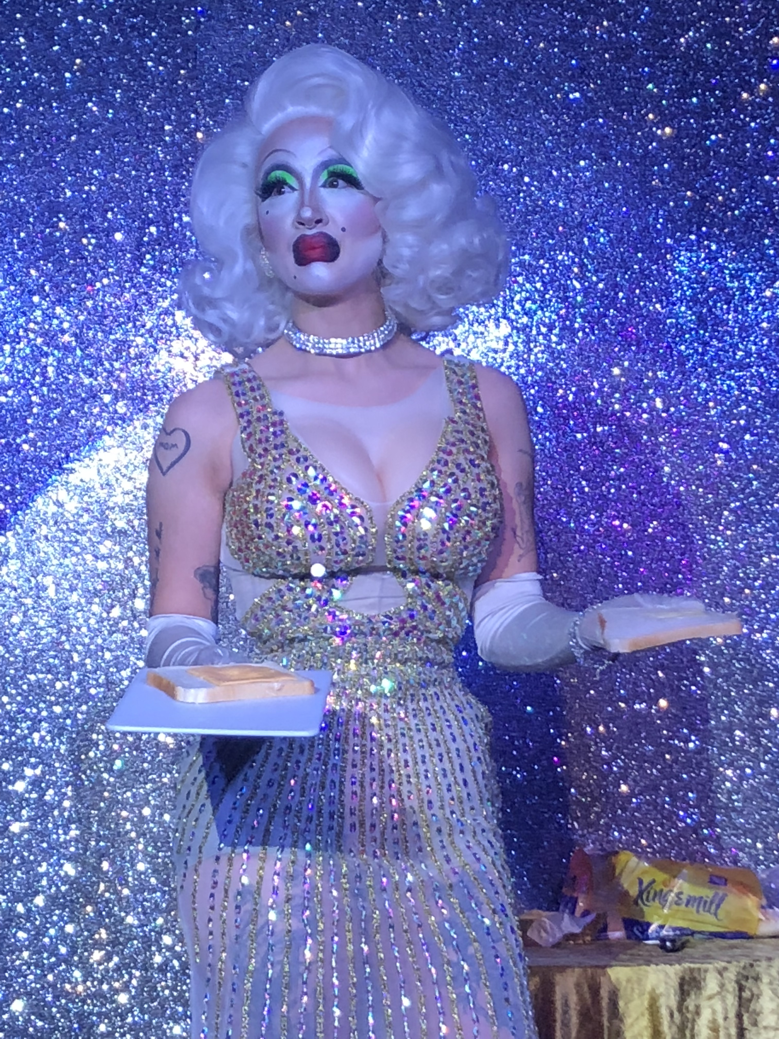 Female drag queen and artist Victoria Sin performs on 12th May 2018 at Live Art Bistro, LeedsLocation: UK, Leeds Event type: Art performance Date or year: 2018